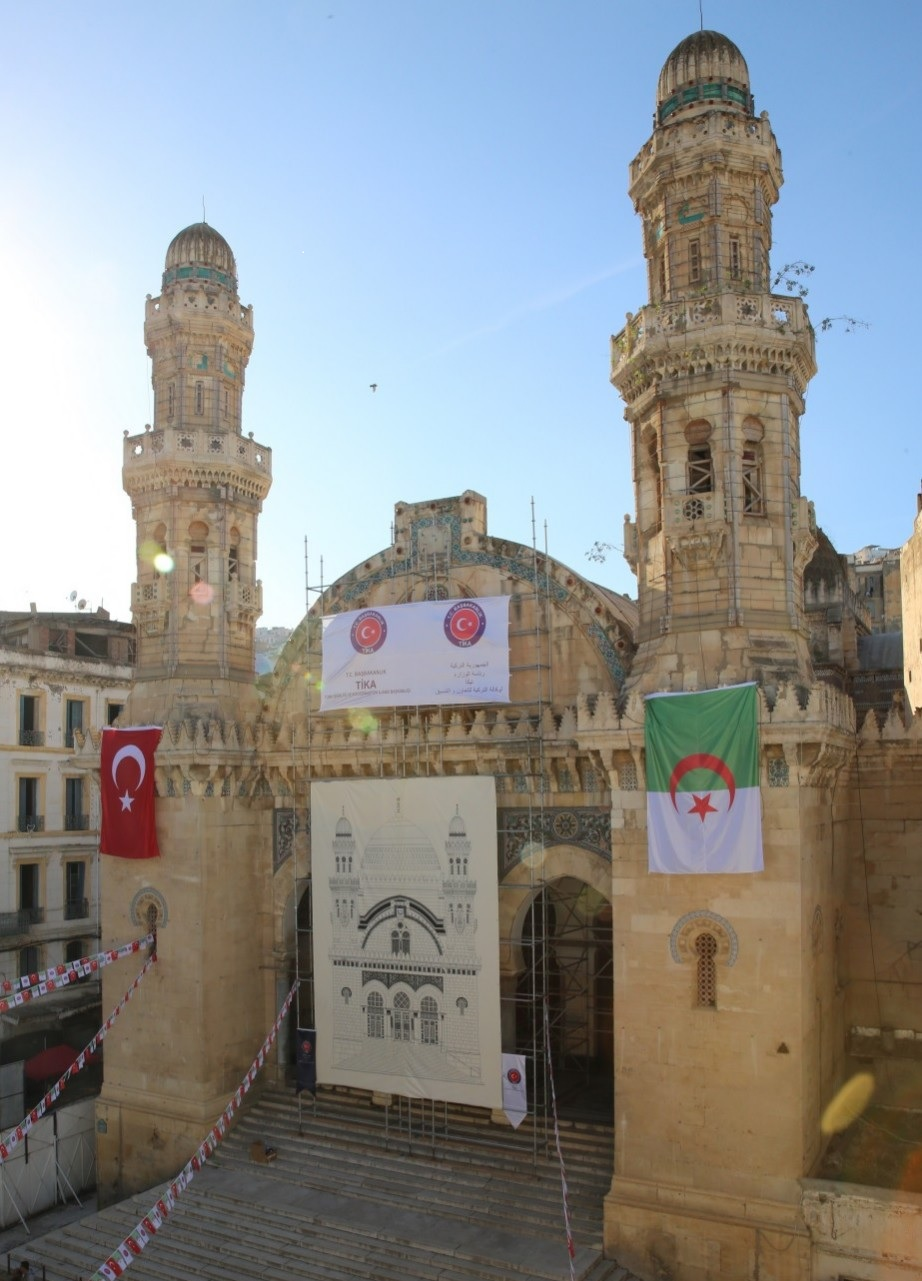 Opening of the Turkish-restored Ketchaoua Mosque.